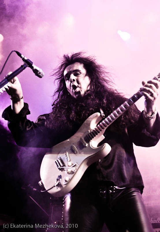 Yngwie Malmsteen performing.